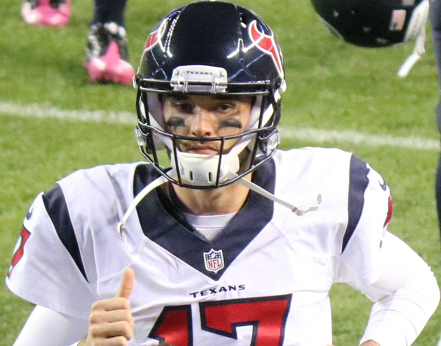 Brock Osweiler, a player on the National Football League.